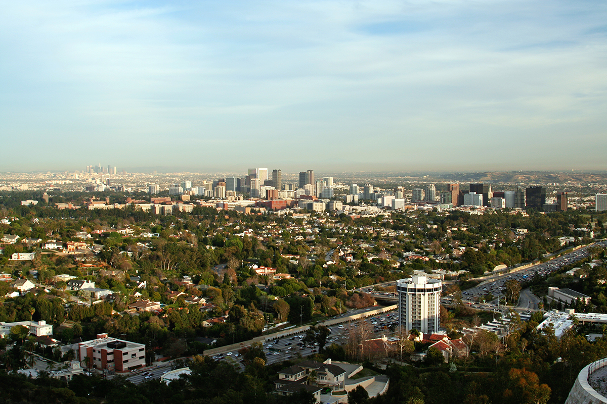 With Westwood and UCLA in the middleground